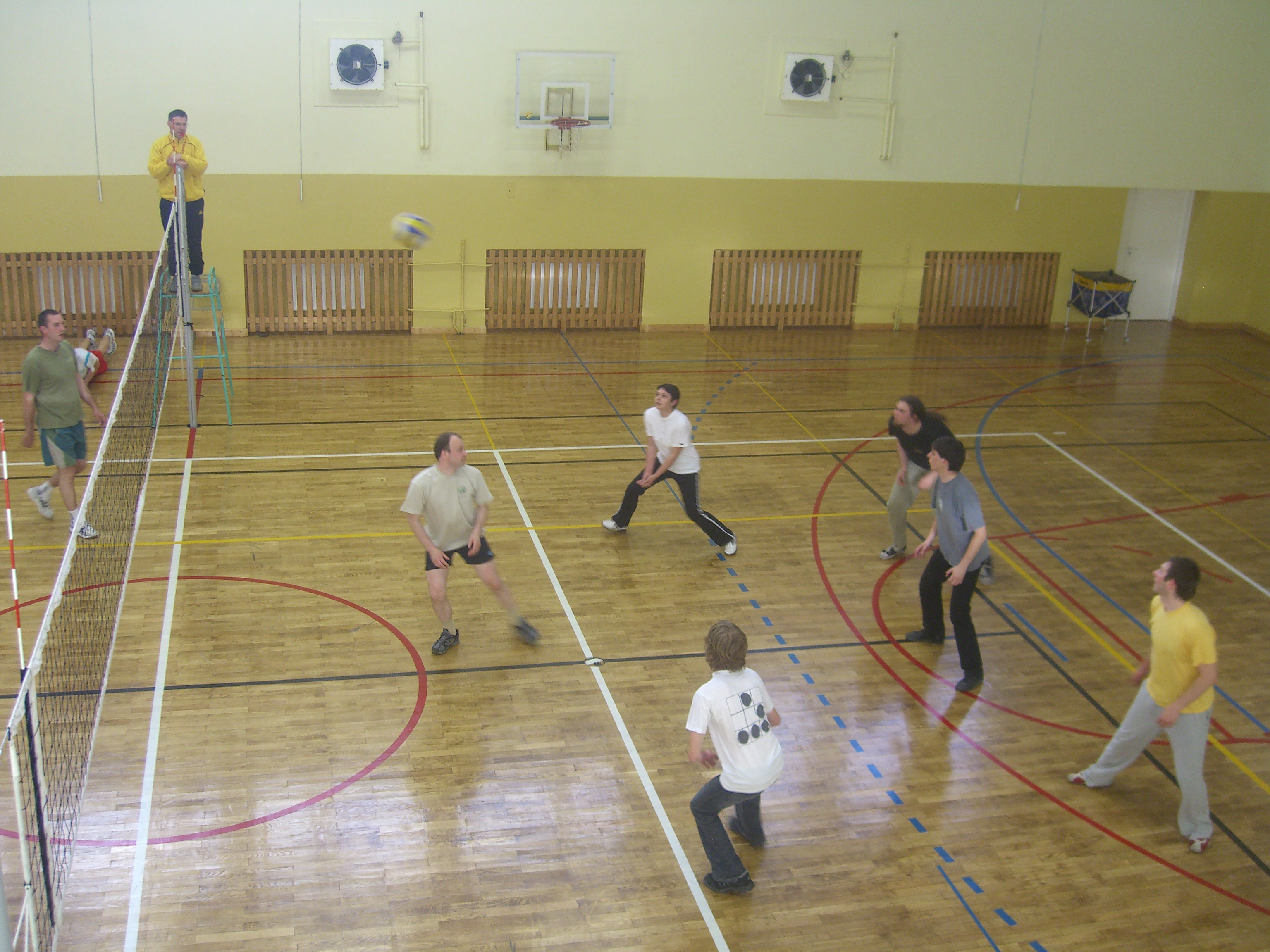 Volleyball match (right: Wikimedians team)